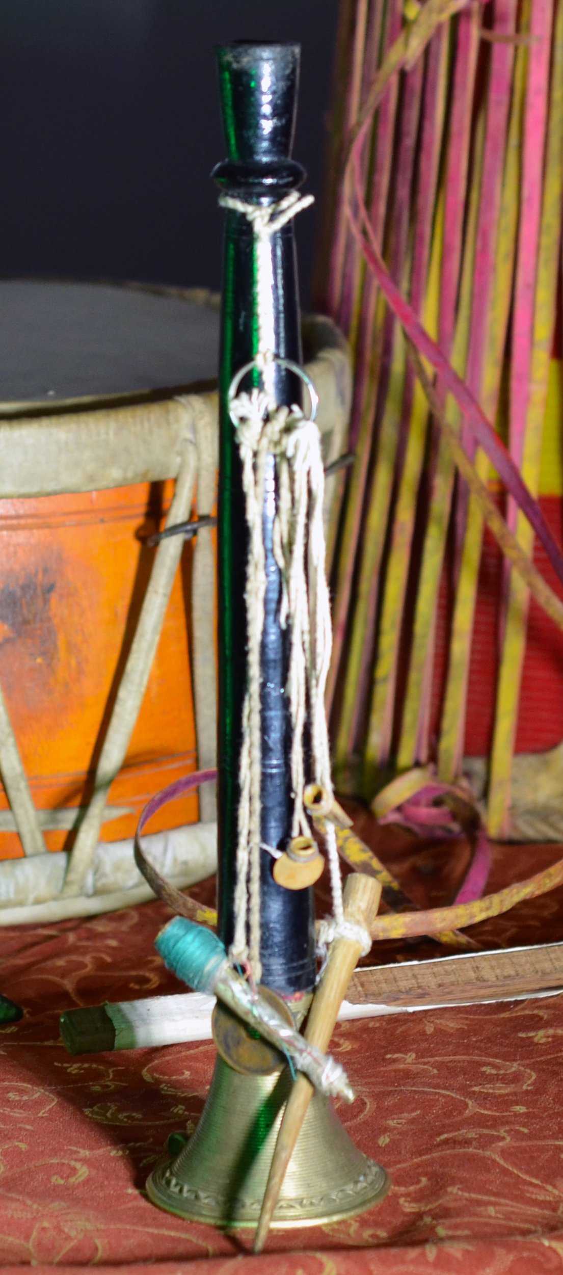 Mahuri is a wind instrument respectively used during the Chhau dance. Chhau is a martial art form from Mayurbhanj, Odisha, India and is also performed in Seraikela in Jharkhand and Purulia in West Bengal. This picture was captured during an exhibition at the Golden Jubilee Celebration of Utkal Sangeet Mahavidyalaya.